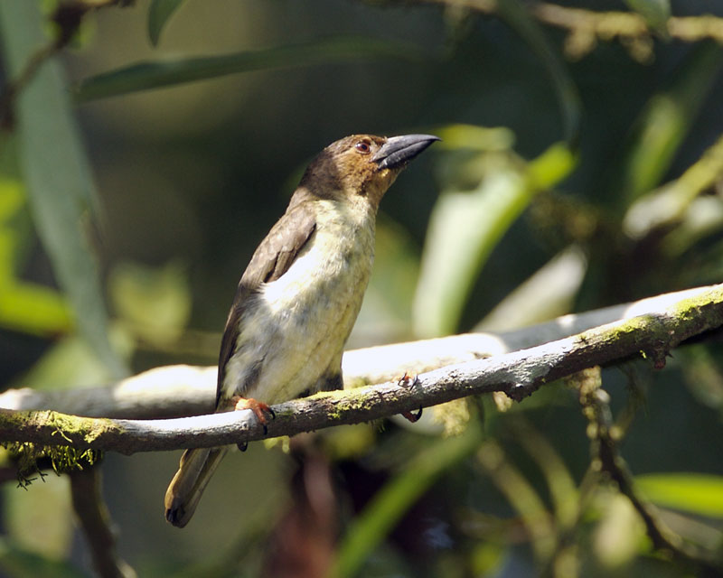 Brown Barbet, Calorhamphus fuliginosus hayii aka Caloramphus fuliginosus Location: Panti Forest, Johor, Malaysia 3rd. September 2006 Malay: Burung Takur Distribuyion